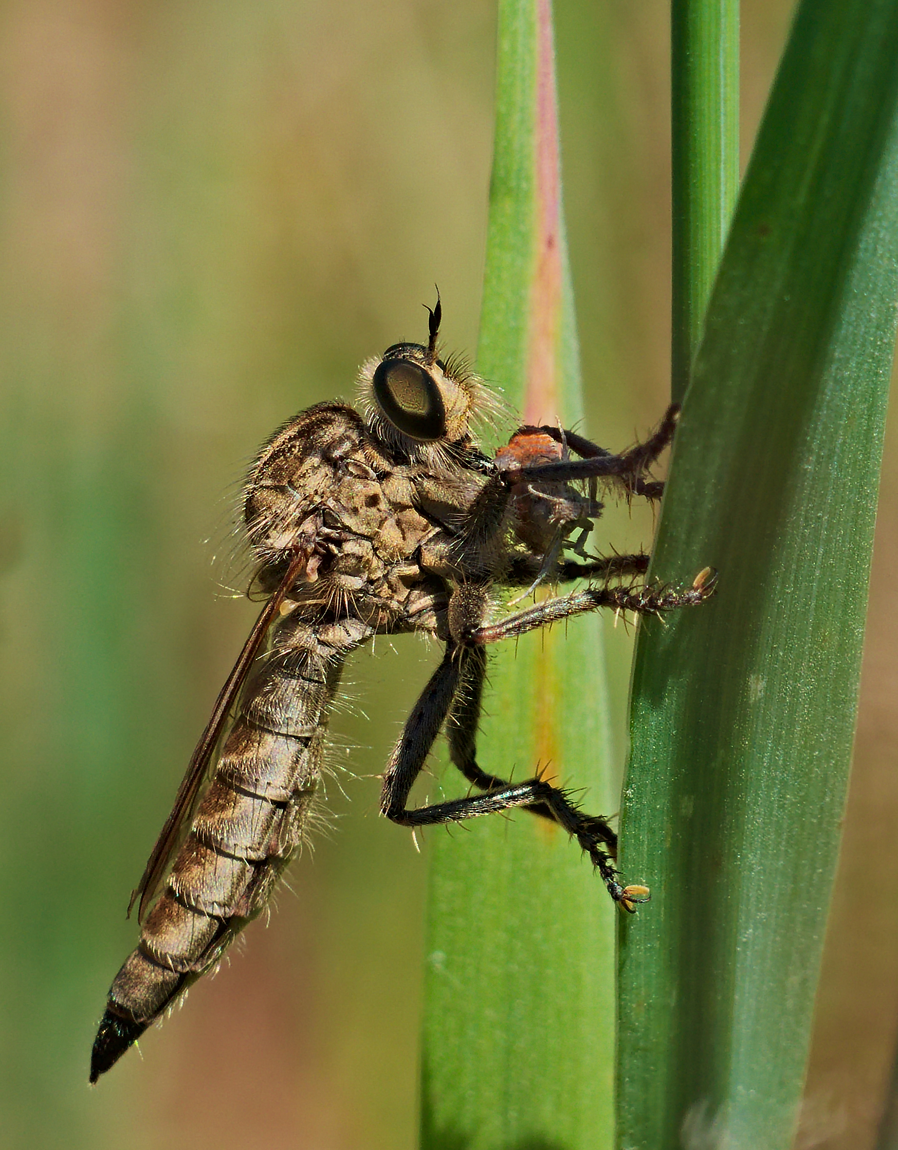 Eutolmus rufibarbis, female. Taken in Viernheim, Hesse, Germany.